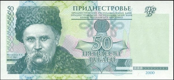 50 Transnistrian ruble